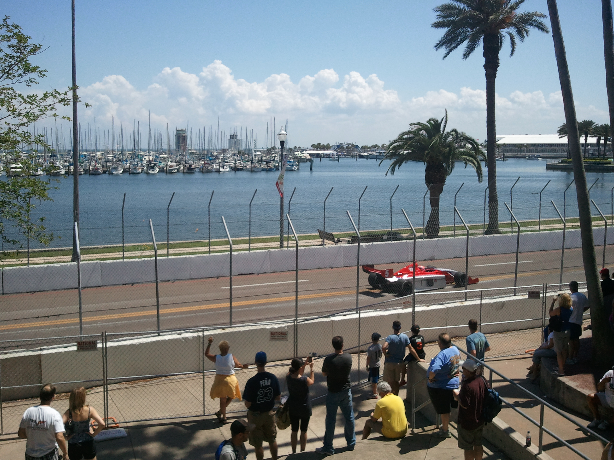 Stefan Wilson driving along the Bay Shore Drive SE section during the qualifying race of the Indy Lights class at the 2011 Honda Grand Prix of St. Petersburg.